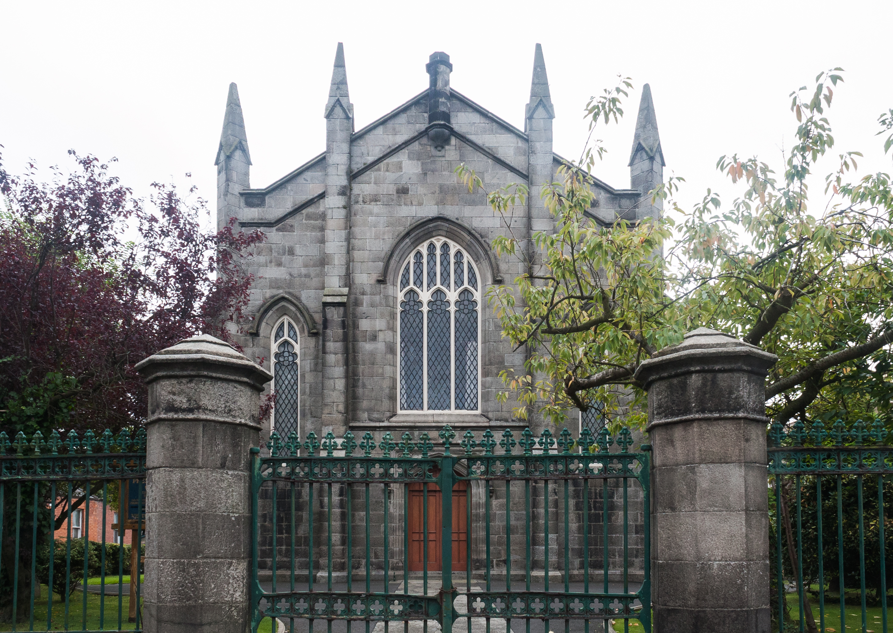 Presbyterian Church of Dundalk, as seen from Jocelyn Street, looking south. Built in 1839 after the designs of the Newry architect Thomas J. Duff in a Tudor Gothic style.